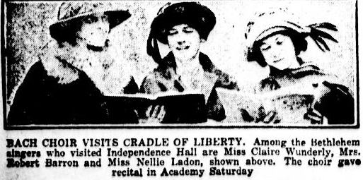 Original caption in the November 6, 1922 Philadelphia Evening Public Ledger: "BACH CHOIR VISITS CRADLE OF LIBERTY. Among the Bethlehem singers who visited Independence Hall are Miss Claire Wunderly, Mrs. Robert Barron and Miss Nellie Ladon, shown above. The choir gave recital in Academy Saturday"